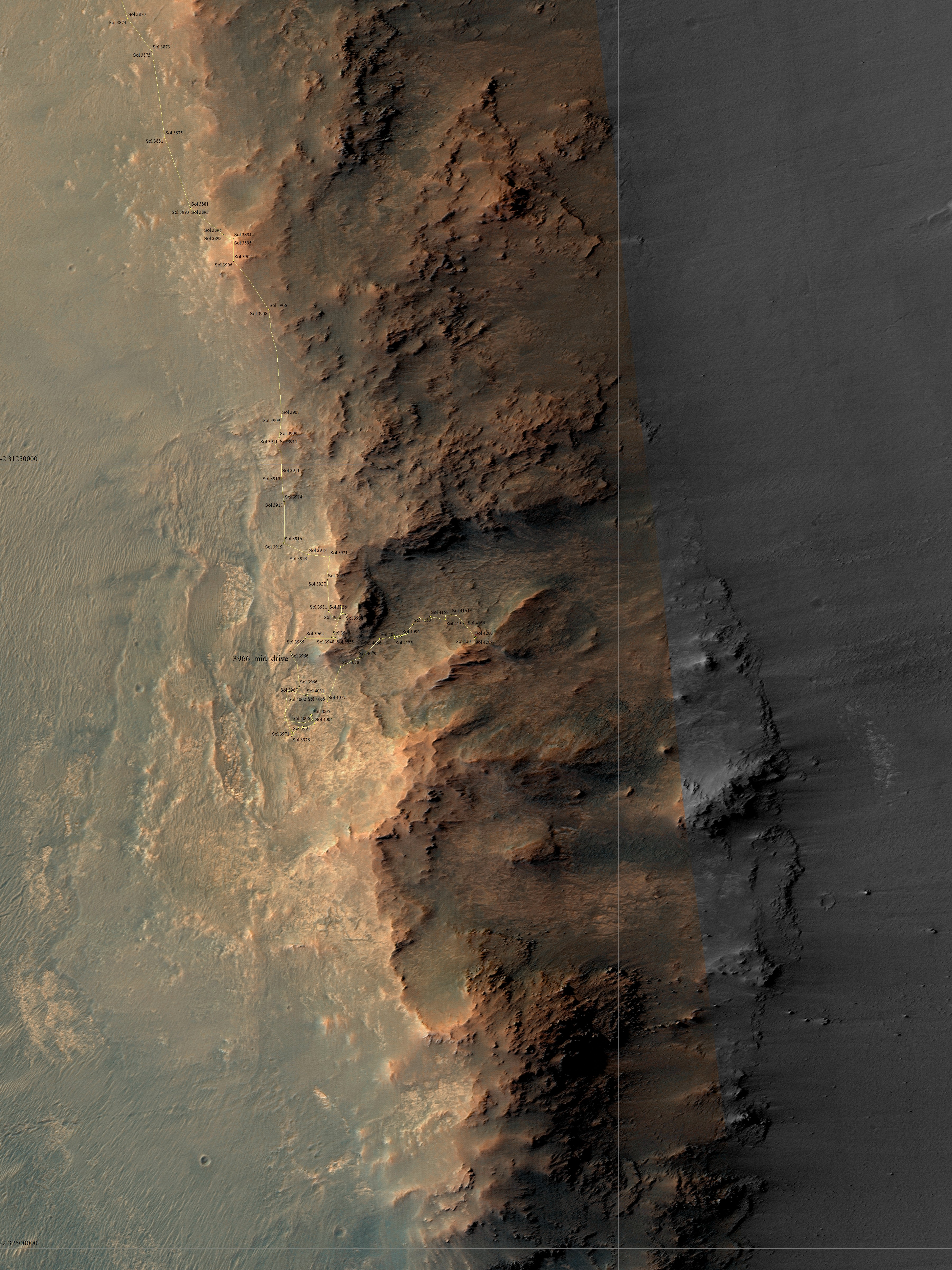 December 15, 2015 Sol 4227 Detailed traverse maps.